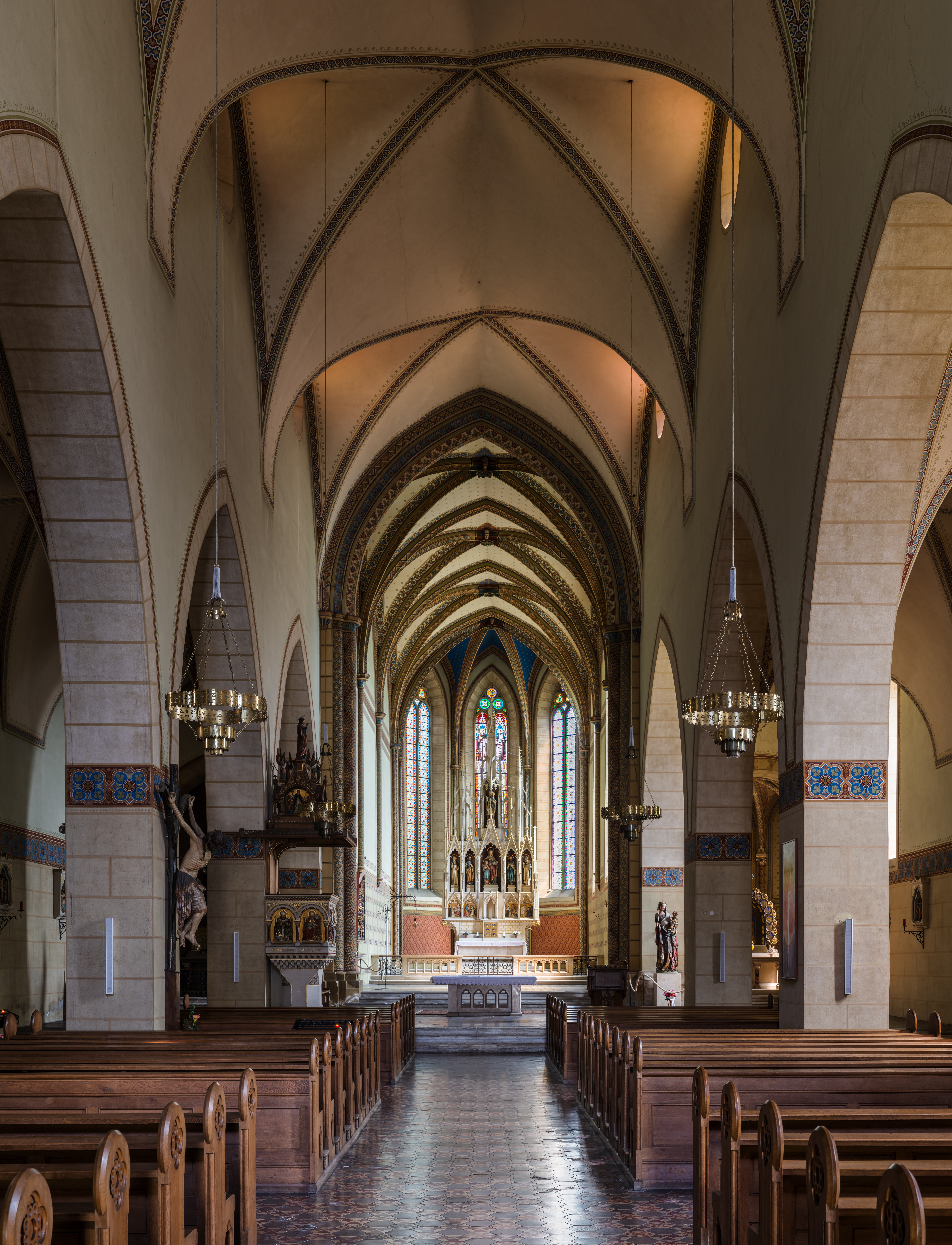 Interior of the the Dominican church St. Nicholas in Friesach, Carinthia, Austria